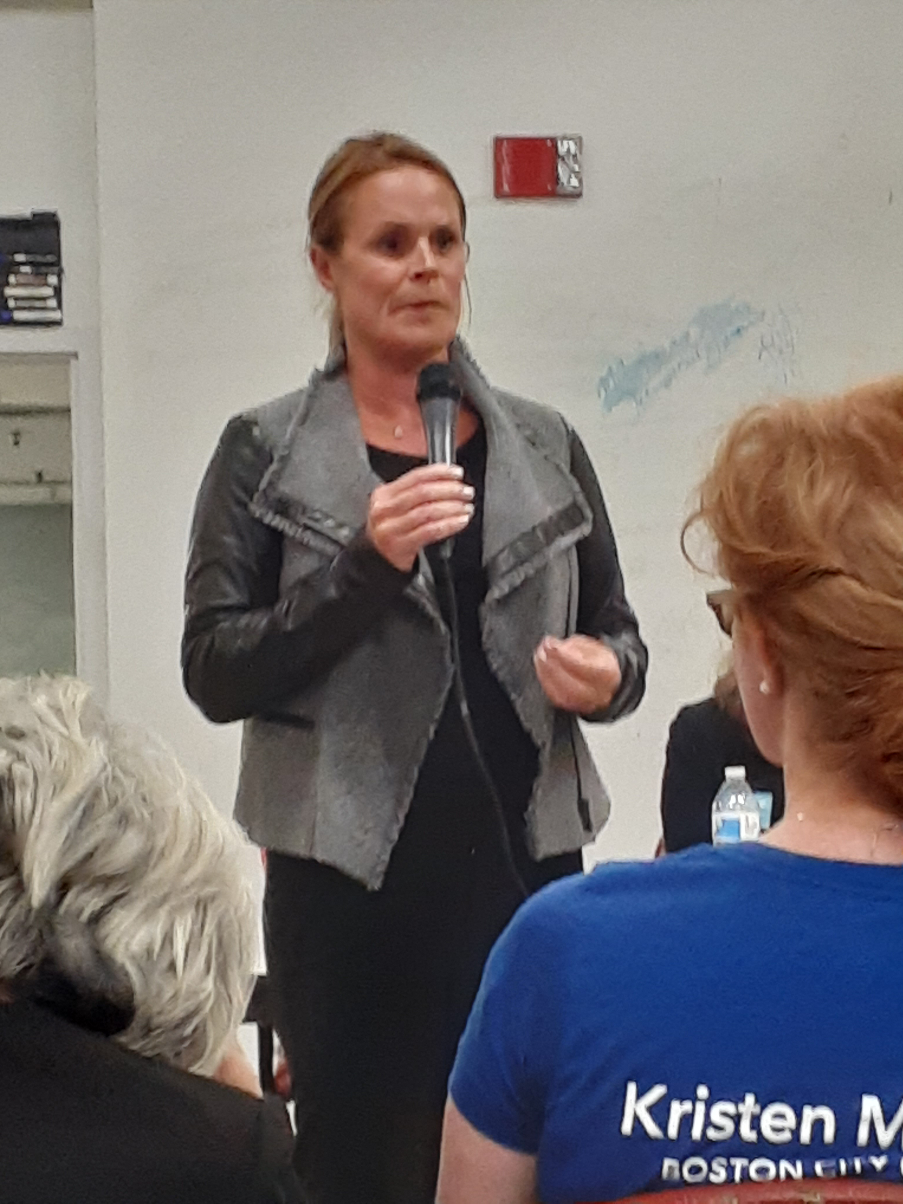 Jennifer Nassour